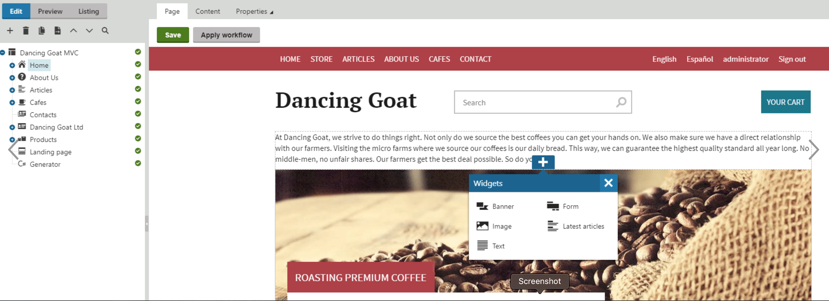 MVC Page Builder in Kentico 12